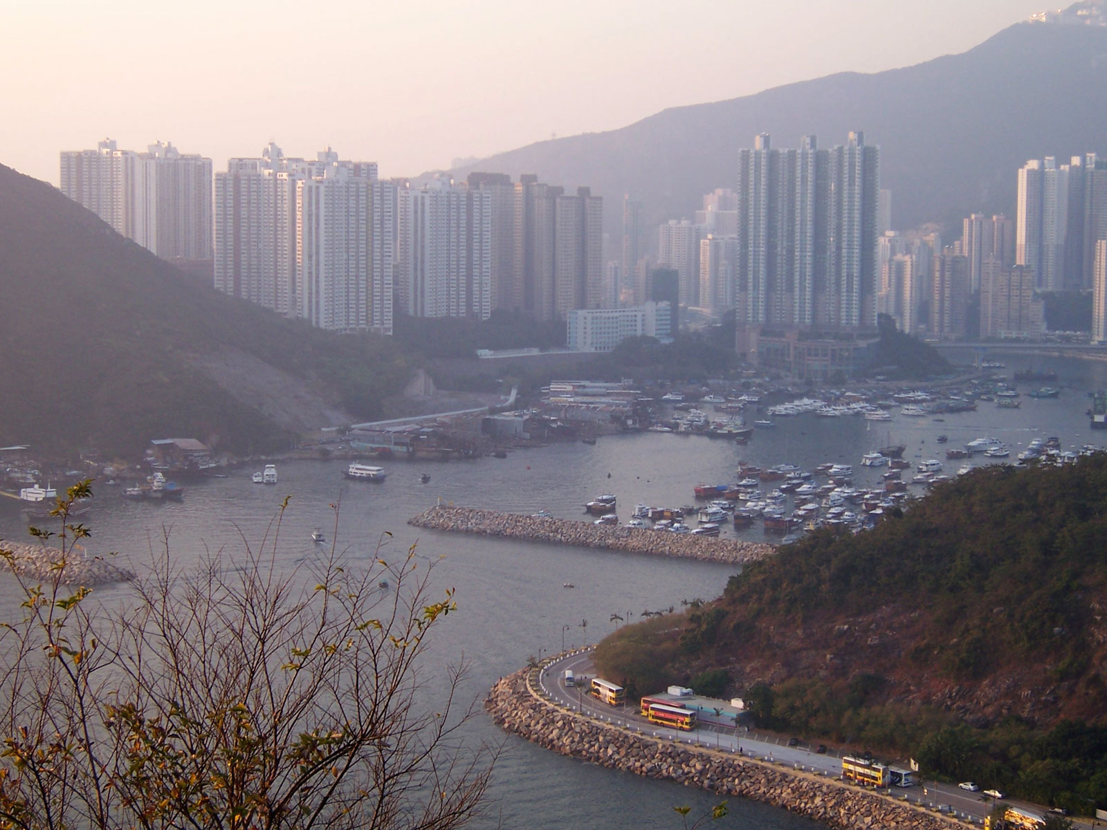 Tai Shue Wan as viewed from Ocean Park, Hong Kong. Taken by Enoch Lau on 1 January 2006. As a courtesy, please let me know if you alter this image or this image description page. Original filename was 100_1120.JPG.